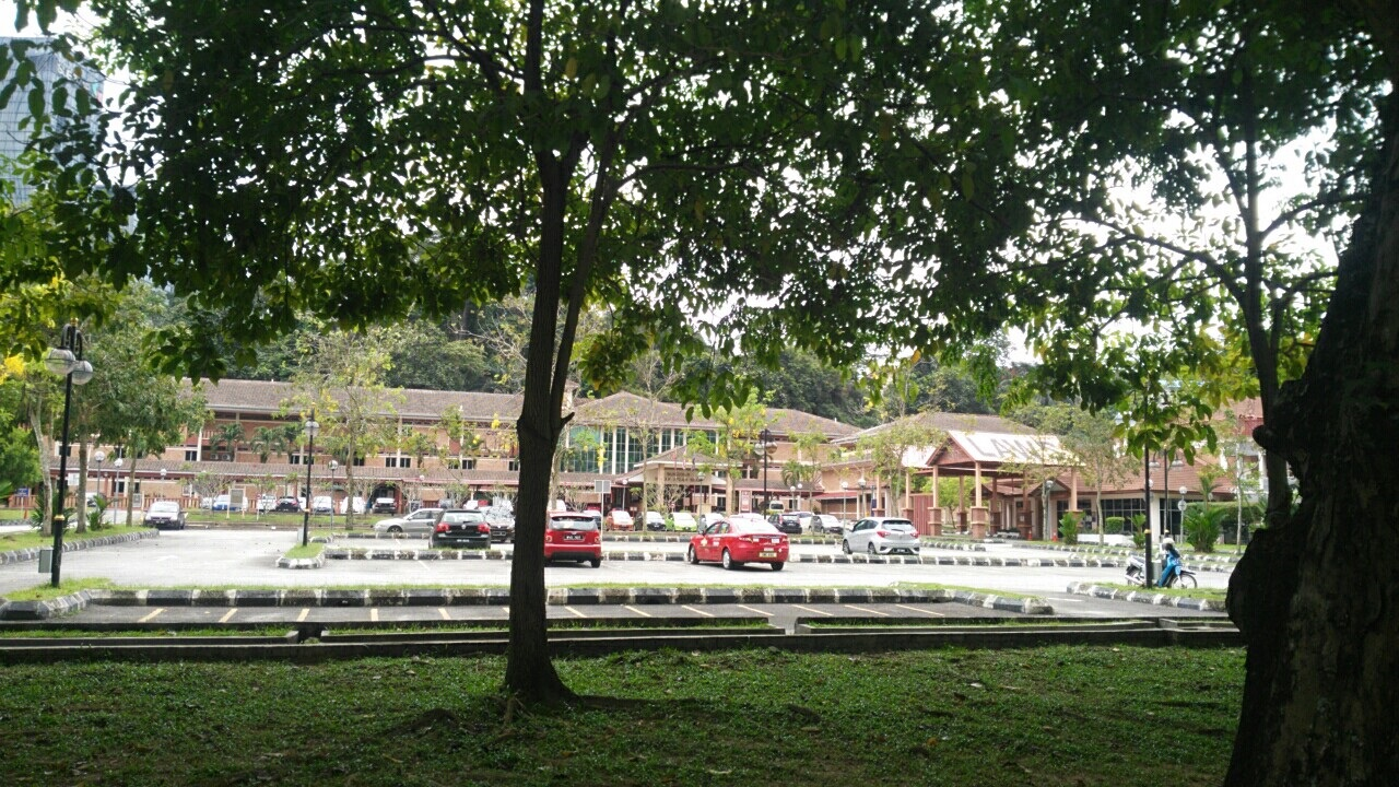 View of Malaya University's Faculty of Laws building from the tree-line separating the building's parking lot from a main campus roadway